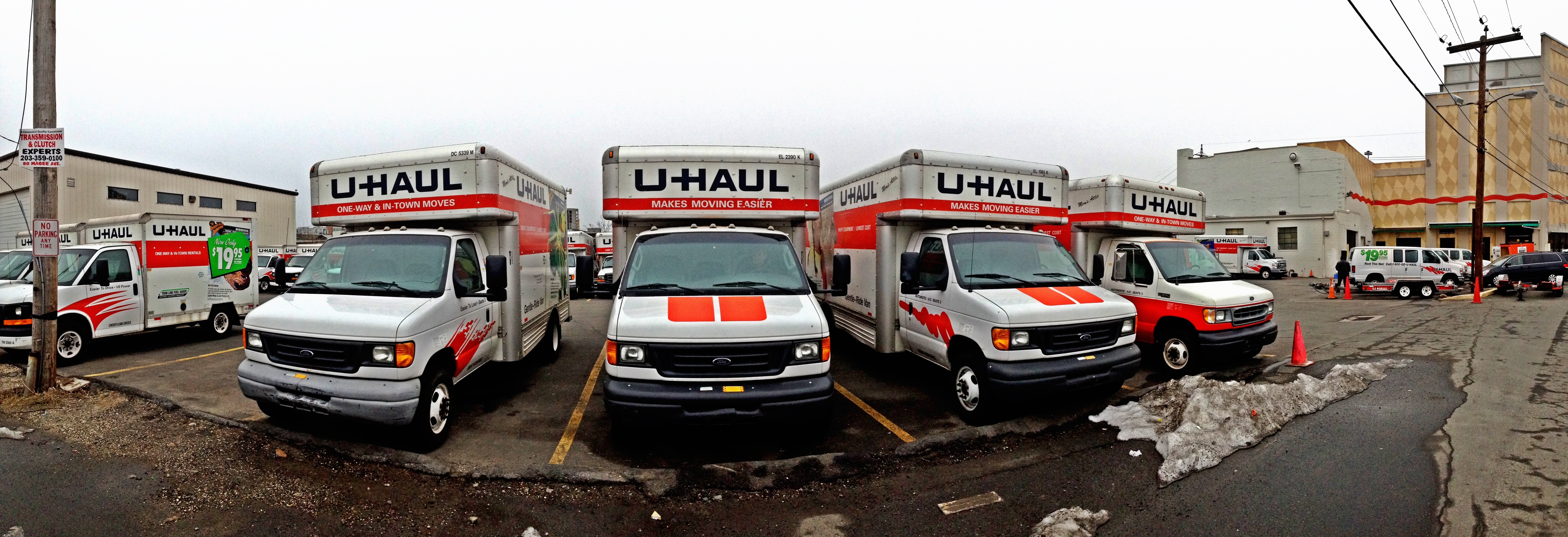 U-Haul Trucks, Stamford, CT 06902, USA - Feb 2013